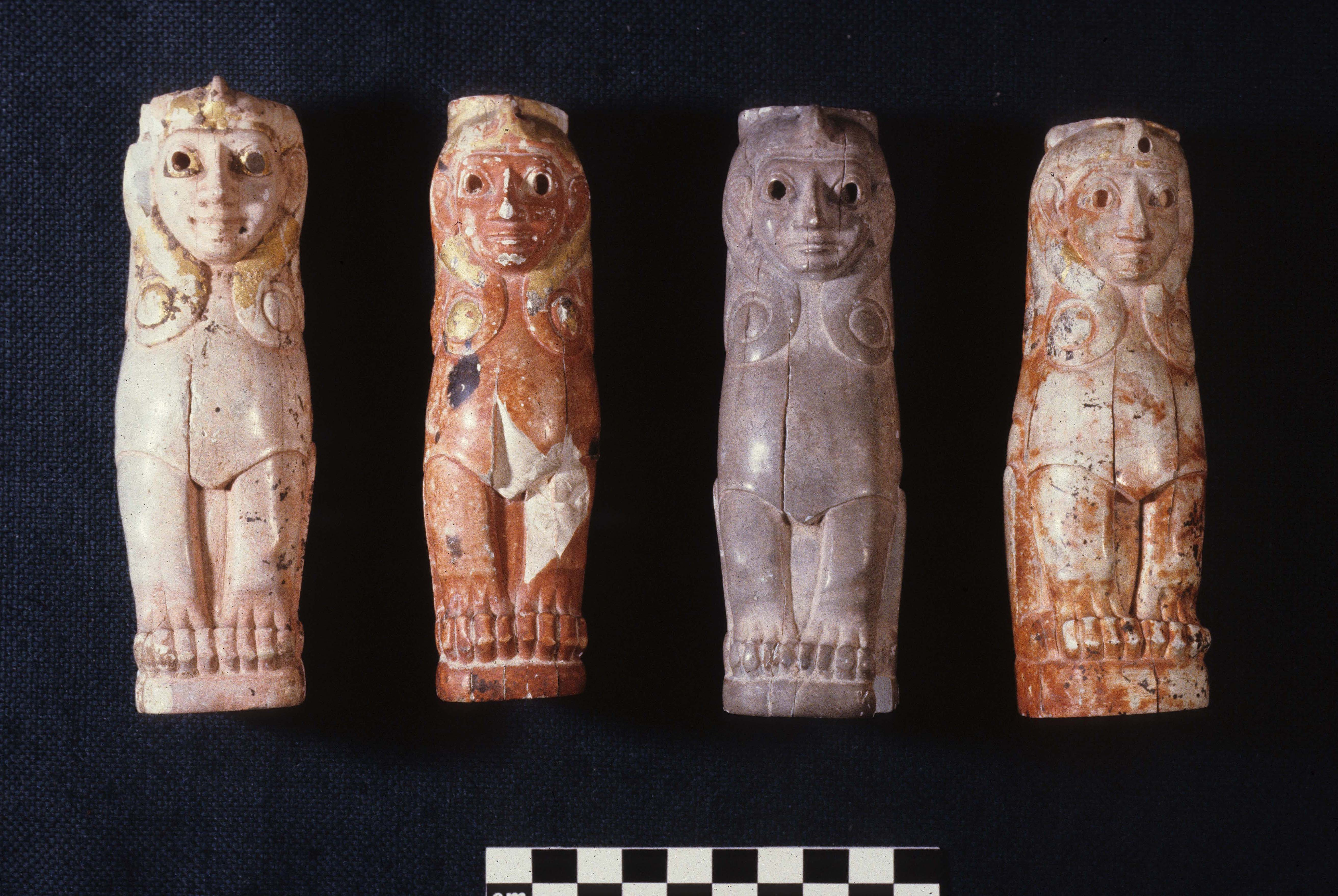 Four ivory sphinxes (Pratt ivories) in the Metropolitan Museum of Art, New York, NY. These belonged to an ivory chair from the site of Acemhöyük, Turkey. 19th-18th century B.C. Photograph Elizabeth Simpson.